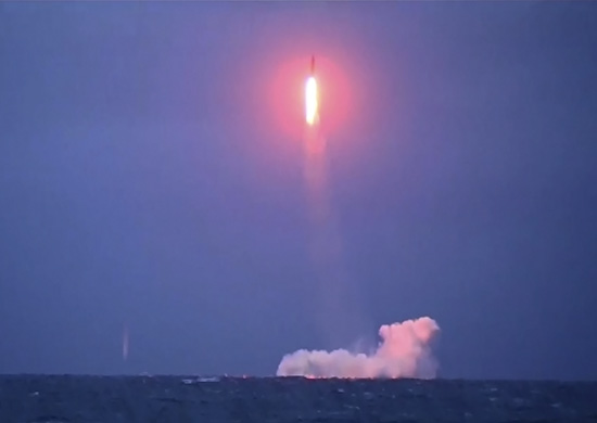 Today, crew of Verkhoturye strategic missile submarine cruiser of the Northern Fleet under command of Captain I rank Dmitry Zelikov successfully launched the Sineva intercontinental ballistic missile from the Barents Sea area on the Kura range located on Kamchatka. The launch was performed from the submerged submarine. According to the objective monitoring data, the warhead was delivered to the Kura range on Kamchatka. The crew demonstrated its professional skills during preparation activities and the missile launch. The Sineva launch was carried out in the course failsafety inspection of the Strategic Nuclear Deterrence System. This was the 27th successful ballistic missile launch from the board of Verkhoturye strategic missile submarine cruiser.